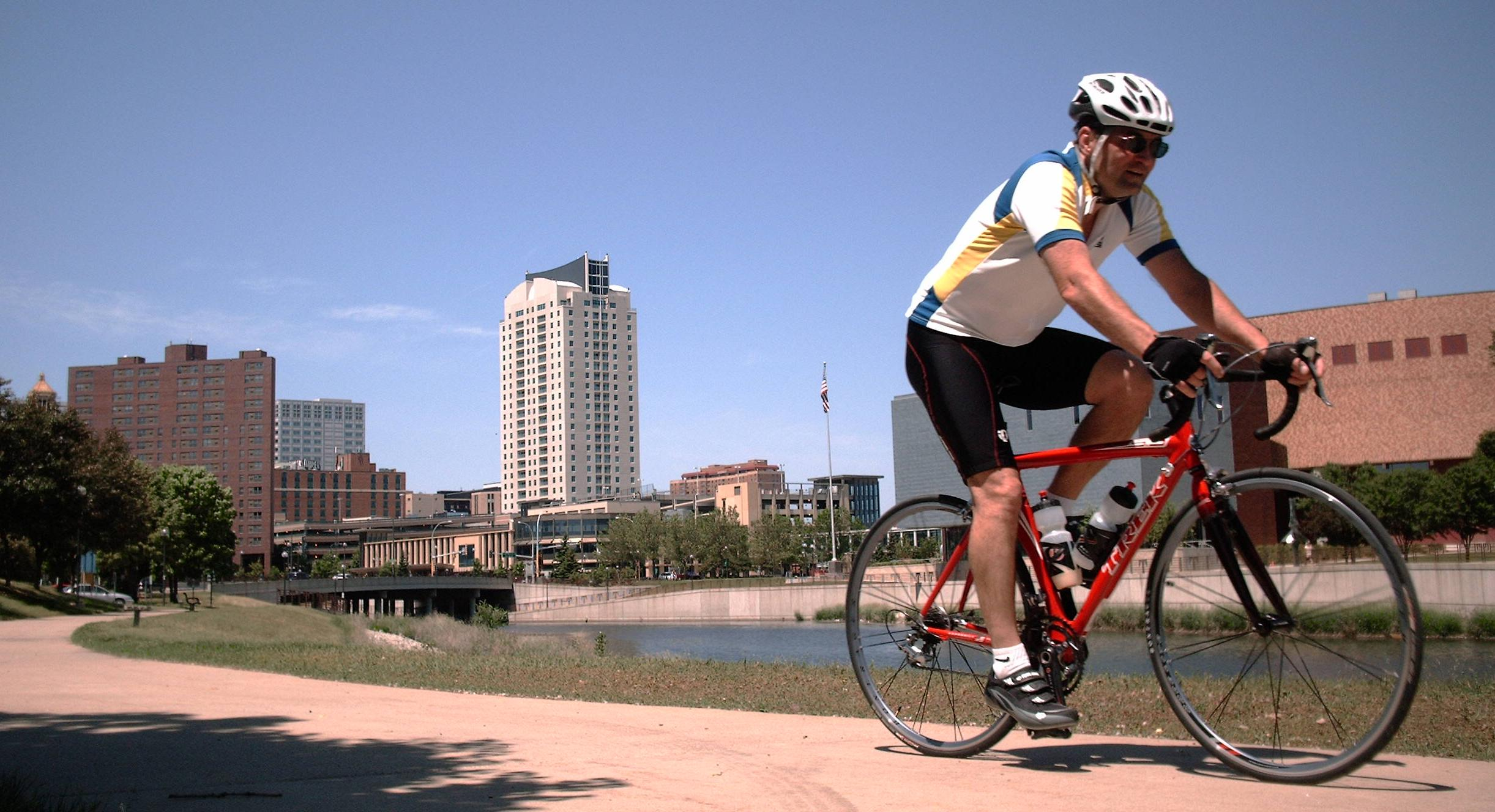 Photo I took today of a bike path in downtown Rochester, Minnesota. CC & GFDL